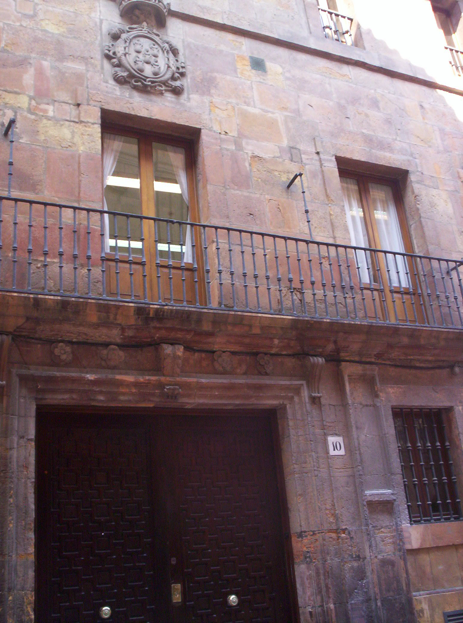 Heredia Palace in Oviedo,Asturias, Miranda coat of arms